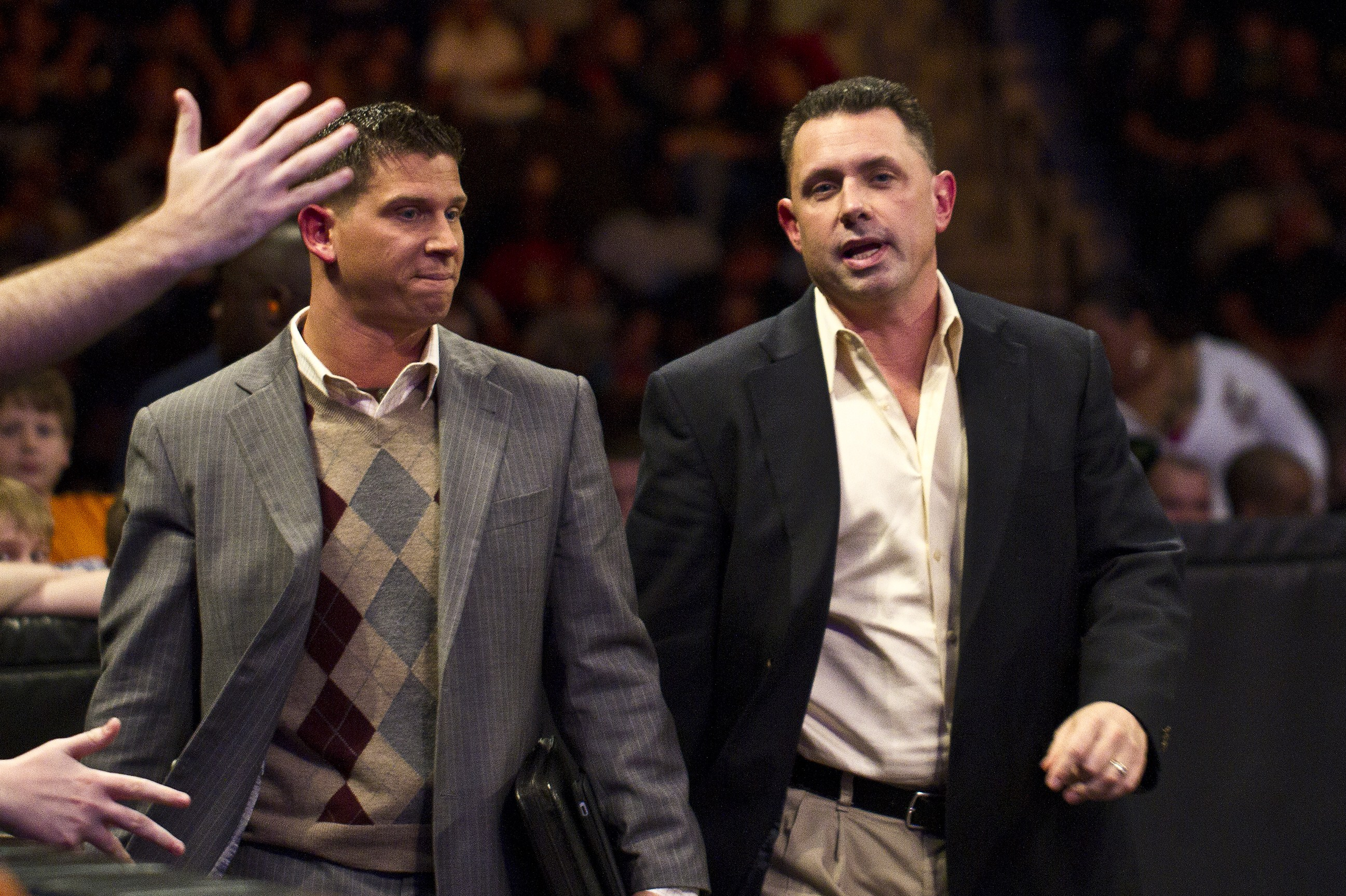 Josh Mathews (left) and Michael Cole (right) the then NXT commentators on November 23, 2010. Cropped from original License on Flickr: CC-BY-SA-2.0 Flickr tags: wwe, wcw, ecw, 800th, Monday night raw, Friday night smackdown, raw, smackdown